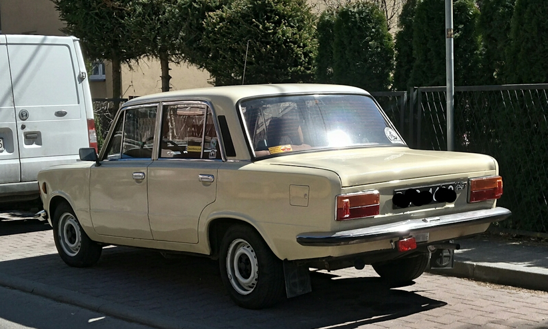 Polski Fiat 125p in Poland.